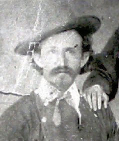 Charles Bowdre circa 1880